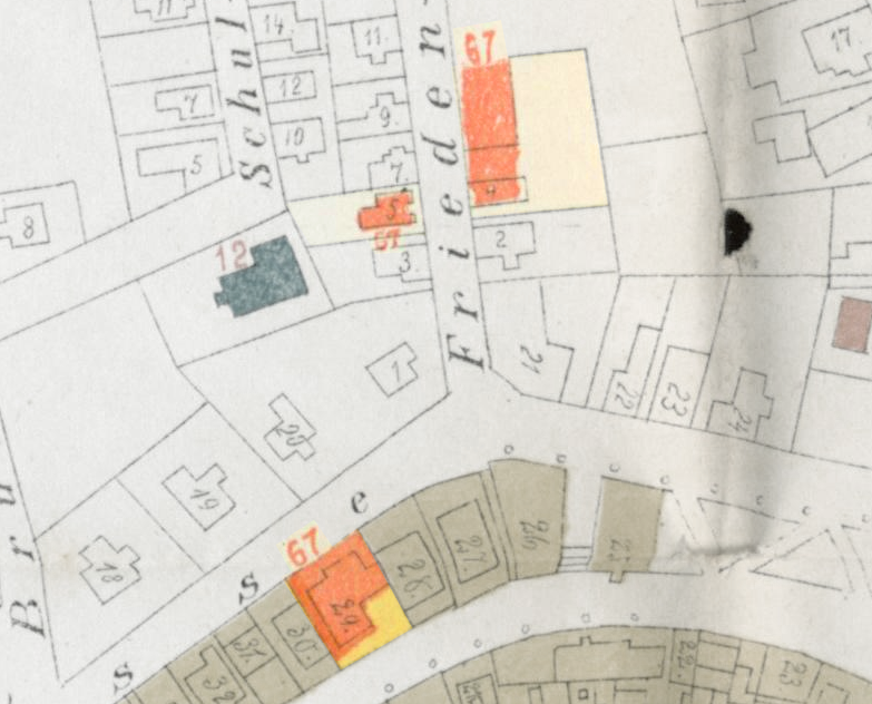 This is an extract of "Plan der Stadt Bielefeld" (map of the city of Bielefeld, Germany) showing the highlighted location of former piano factory Th. Mann & Co. (1836 - ca. 1942).